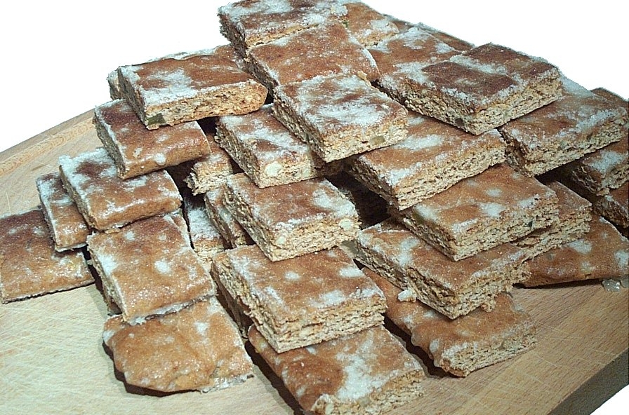 Basler Läckerli, a typical swiss baked good from Basle